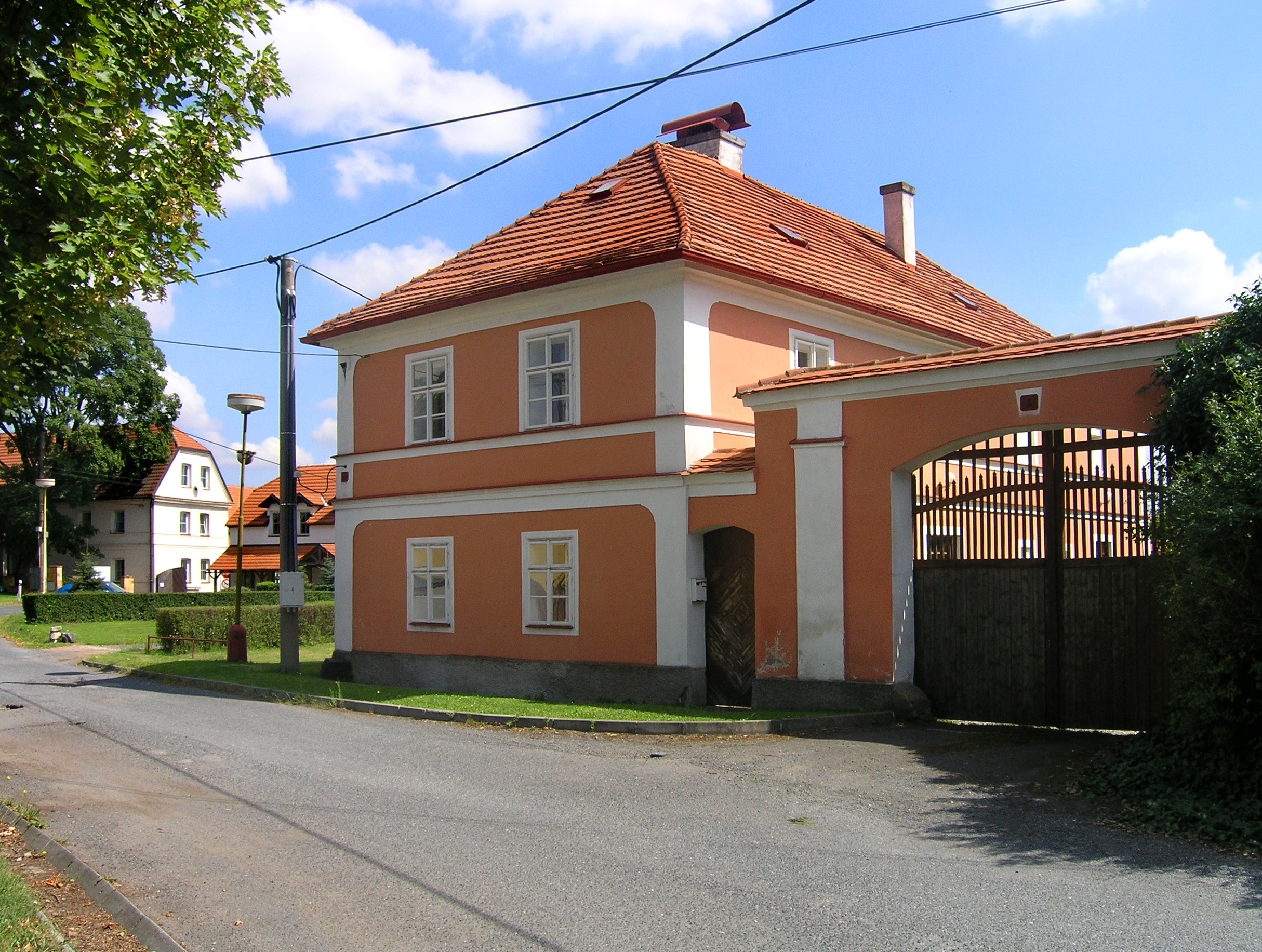 Rebuilt farm in Pletený Újezd, Czech Republic